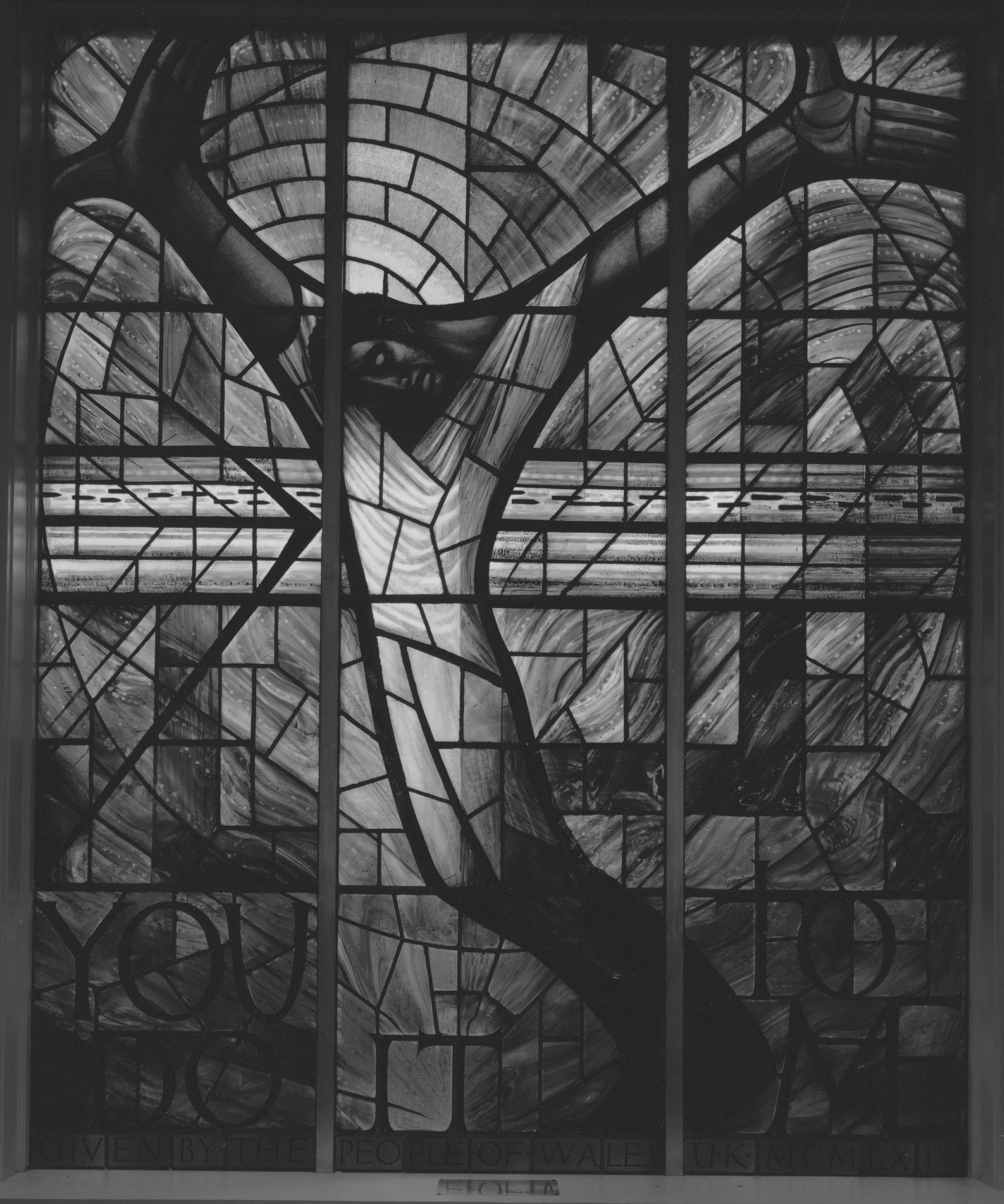 Stained glass window at the 16th Street Baptist Church in Birmingham, Alabama, erected in memoriam following the 1963 bombing of the church, using funds donated by the people of Wales